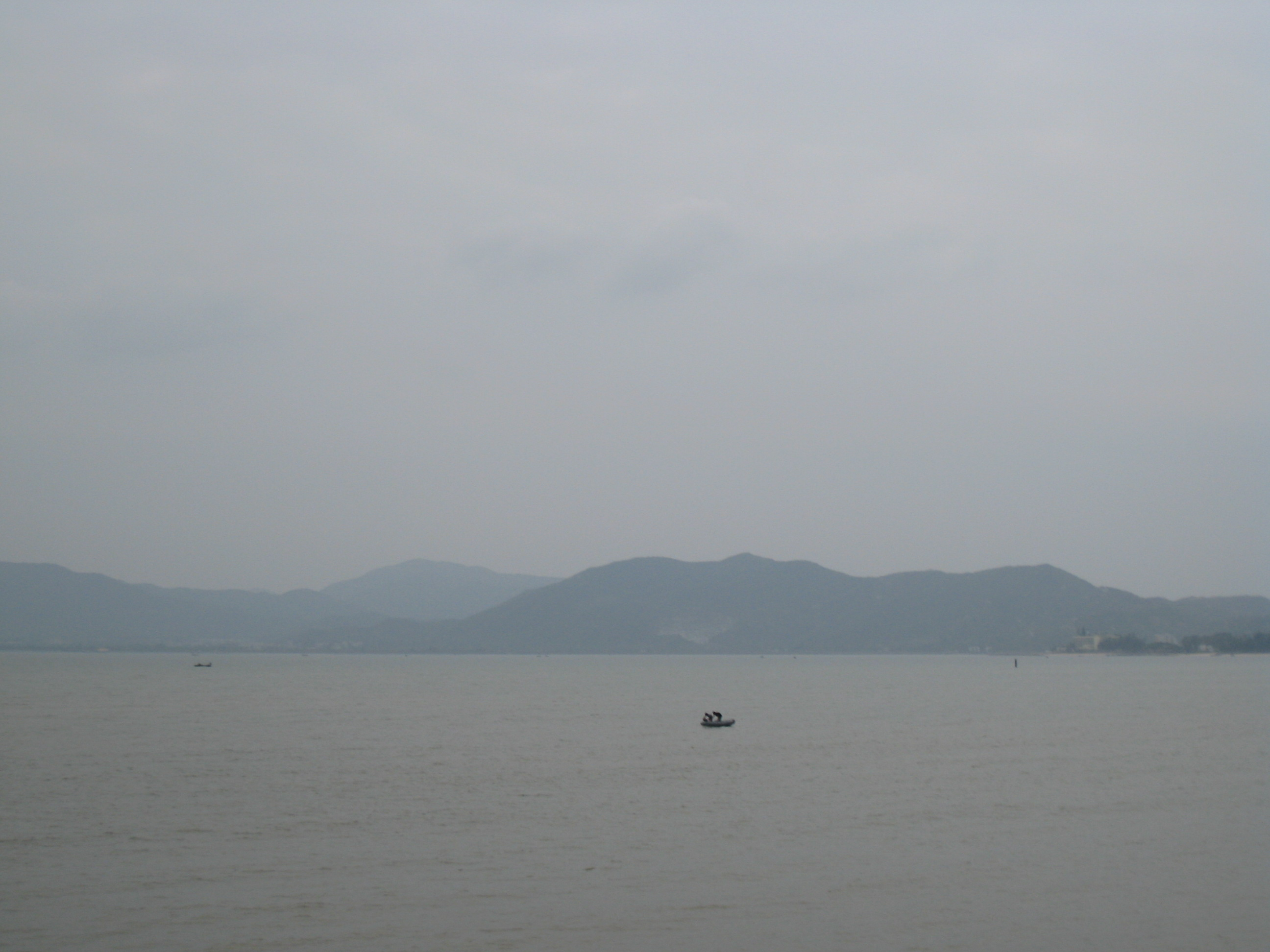 a view over Daya Wan from out Dapengcheng, Dapeng, Longgang, Shenzhen